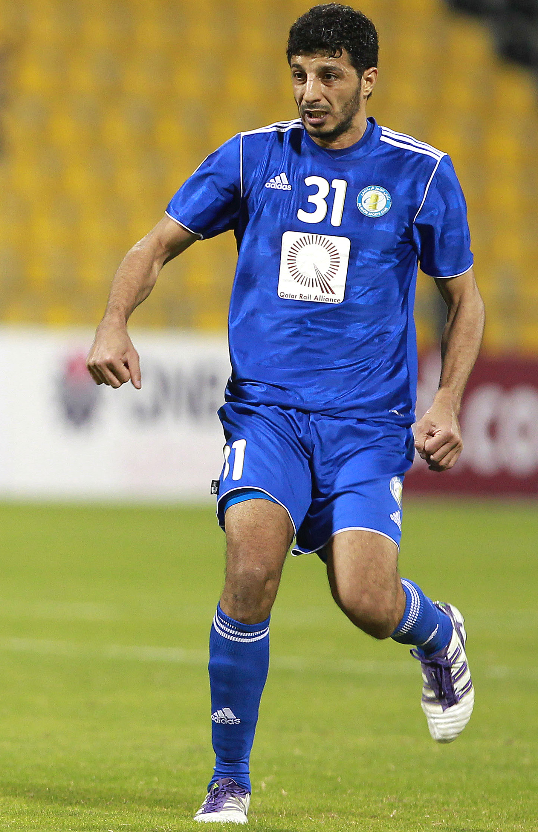 Al Khor's Iraqi professional Salam Shakir reacts during a Qatar Stars League match.